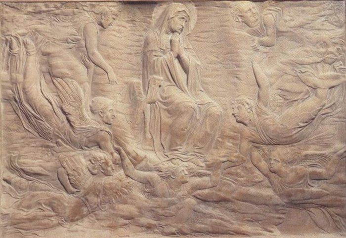 Relief carving by Donatello